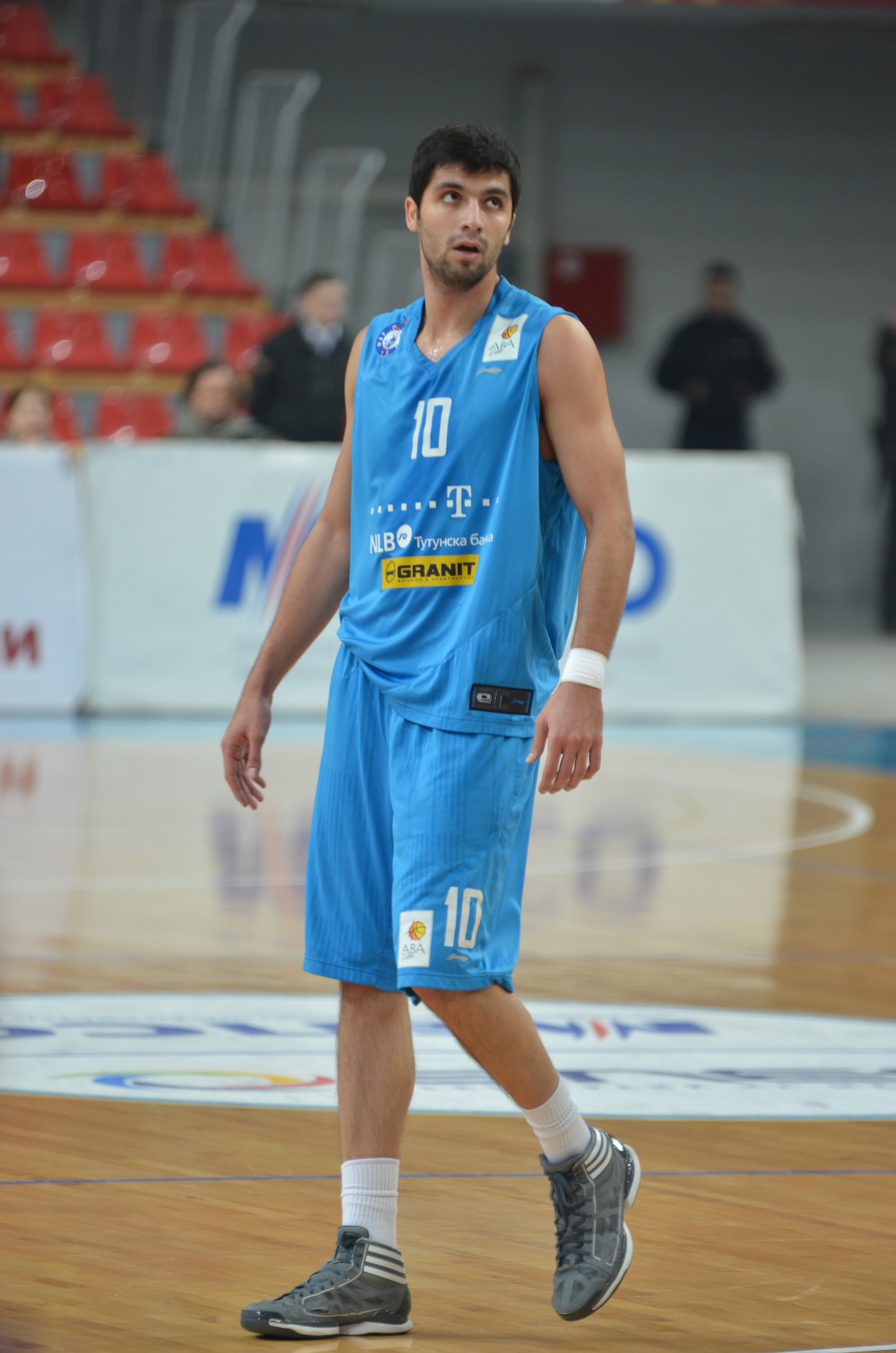 стојдам